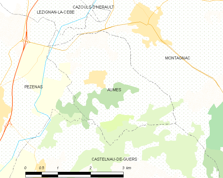 Map commune FR insee code 34017.png - Aumes